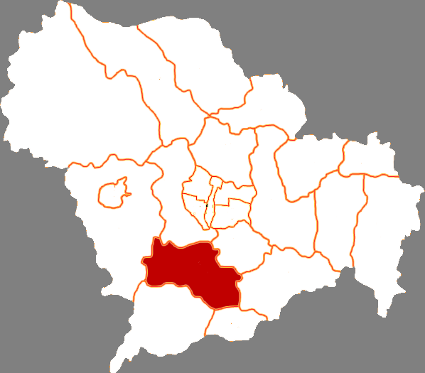 Location of Yuanshi County in Shijiazhuang City, China